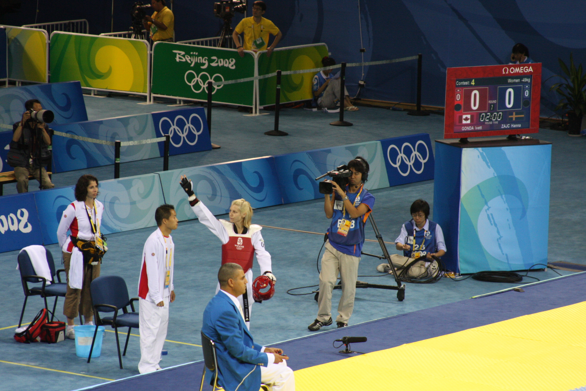 2008 Summer Olympics Taekwondo - Ivett Gonda (CAN, red) before a match v. Hanna Zajc (SWE)